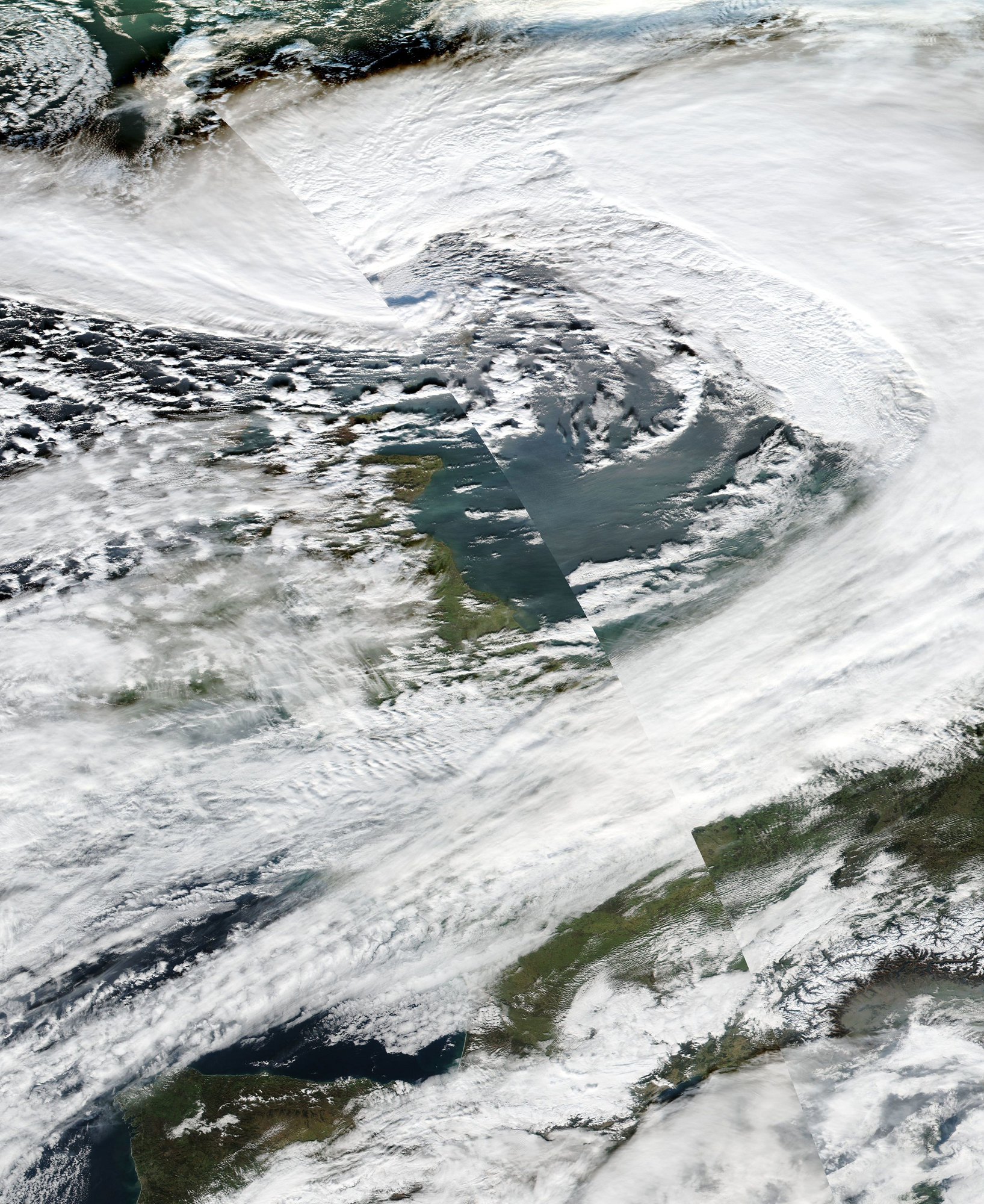 Storm Gertrude of the 2015–16 UK and Ireland windstorm season on 29 January 2016.